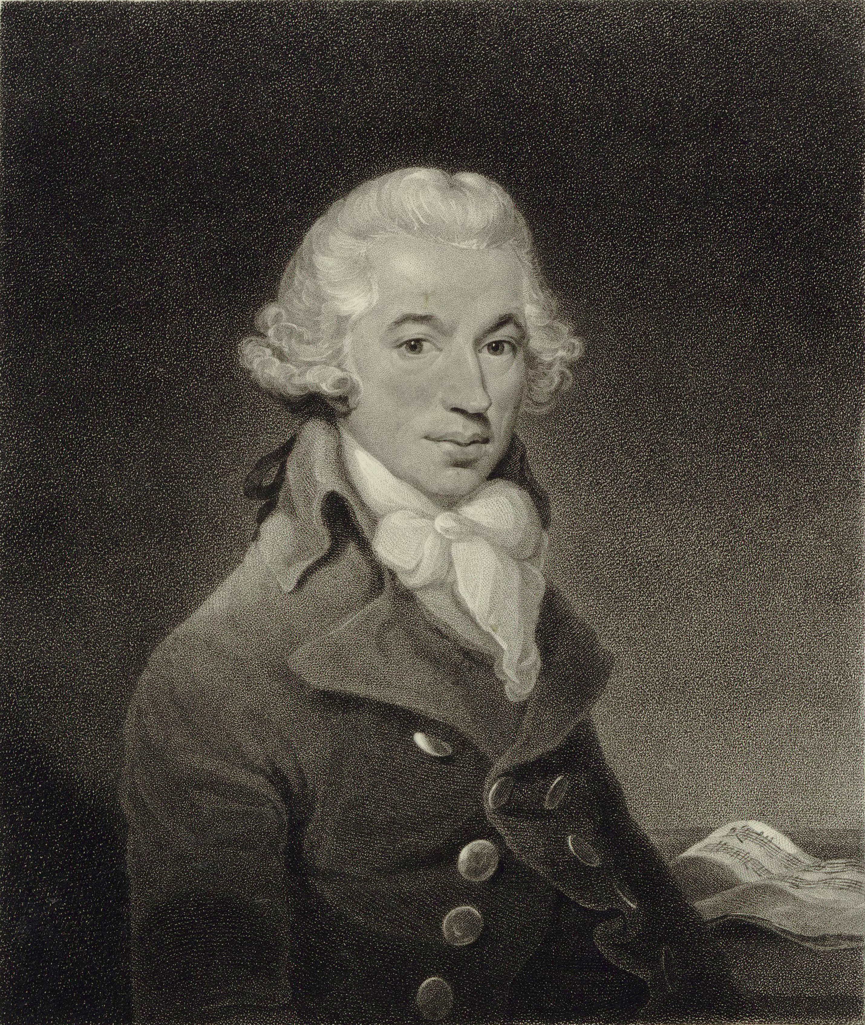 Depicted person: Ignaz Pleyel